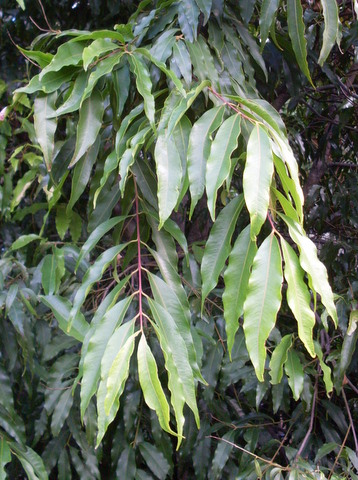 Waterhousea floribunda leaves, Chatswood shops